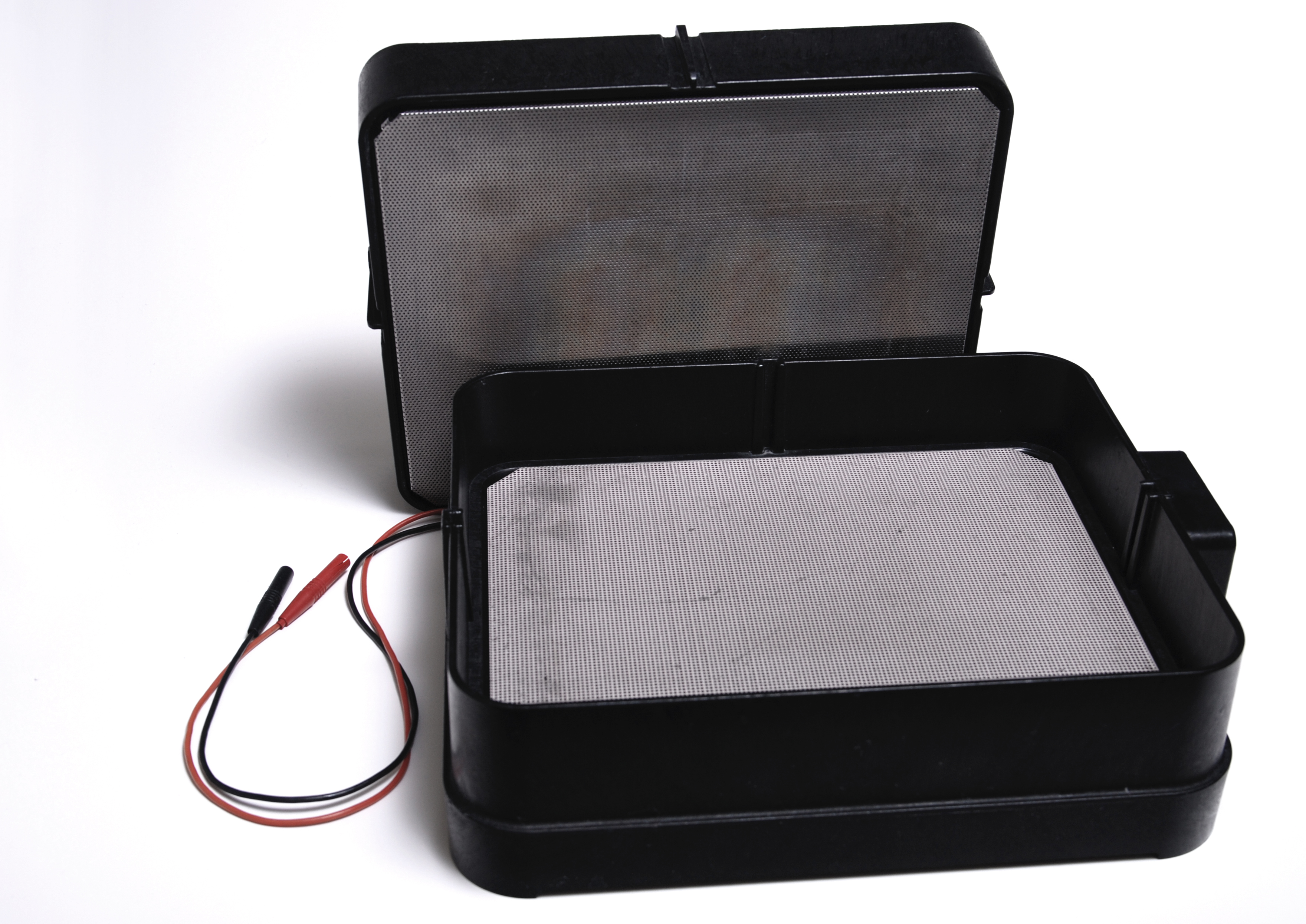 Semi-dry Western blotting apparatus.